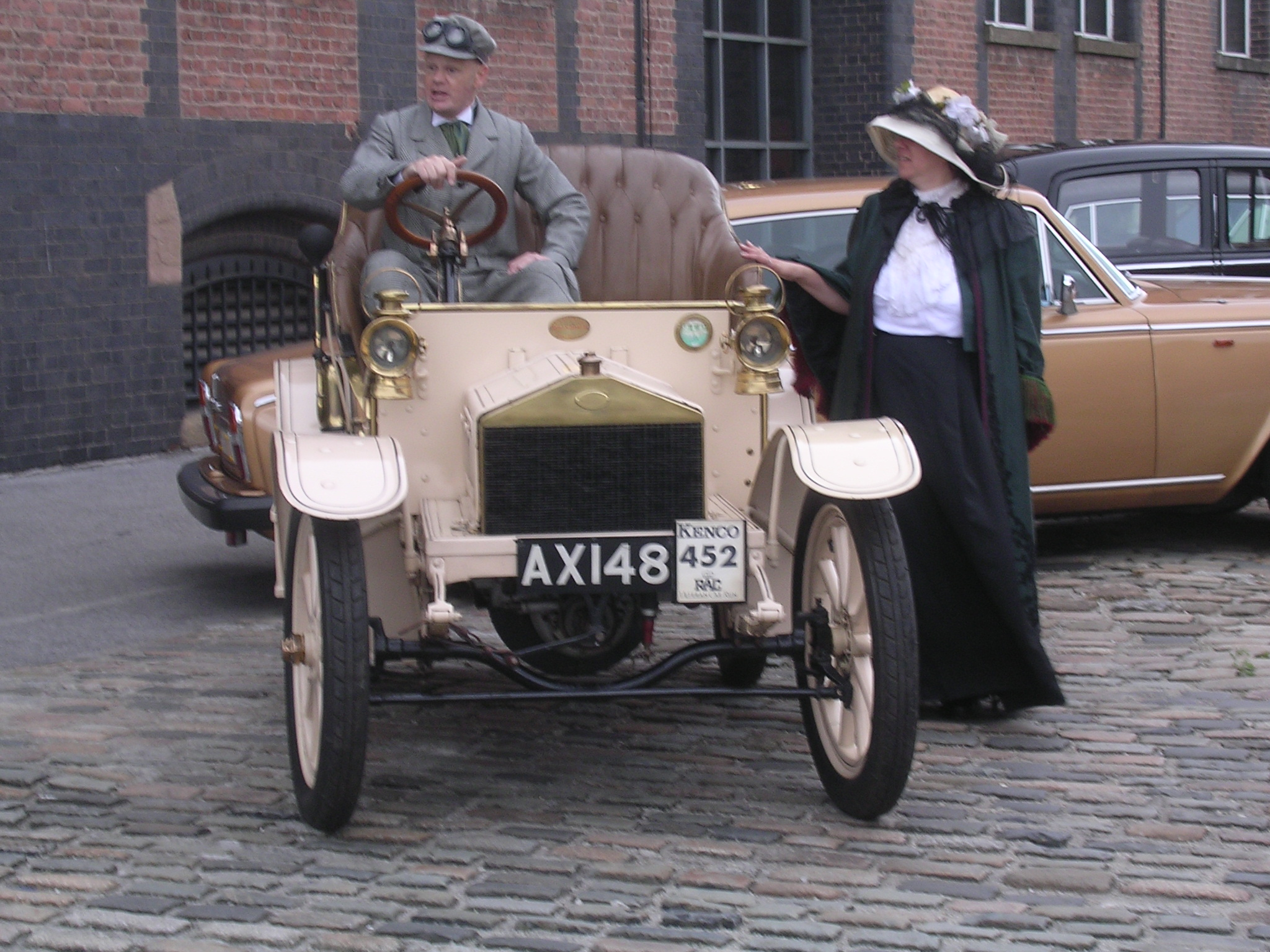 Taken at the Manchester Museum of Science and Industry